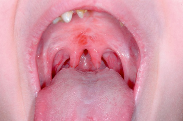 16-year-old patient suffering from Johanson-Blizzard syndrome. Incompletely treated cleft lip and palate and velopharyngeal insufficiency with passage of food and liquids into the nose.